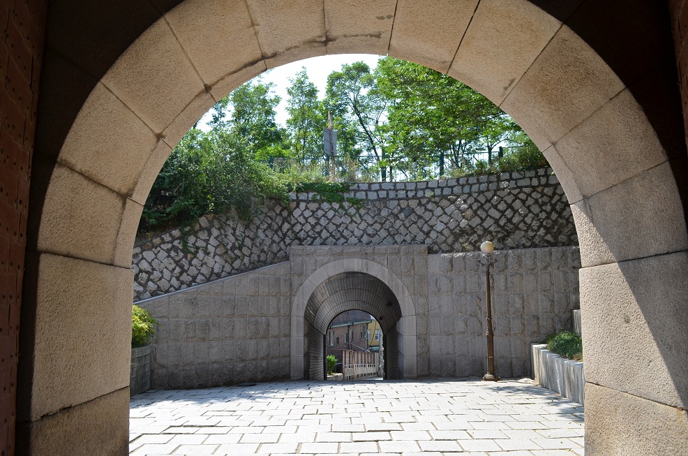 Changuimun Gate, also known as Northwest Gate or Buksomun, Seoul, South Korea. Photographed June 17, 2012. Photo taken from underneath gate, showing tunnel leading up to gate.